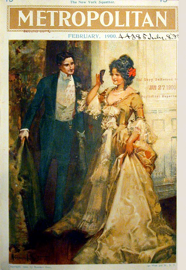 Metropolitan magazine cover, February 1900.